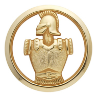 Beret badge Badge of Military Engineering (France).